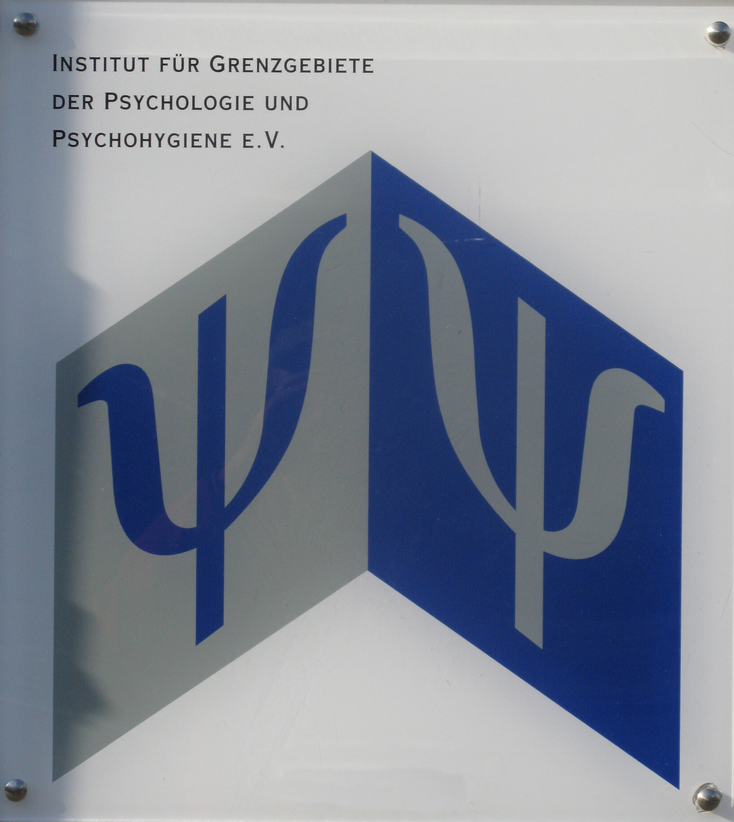 Sign of the IGPP